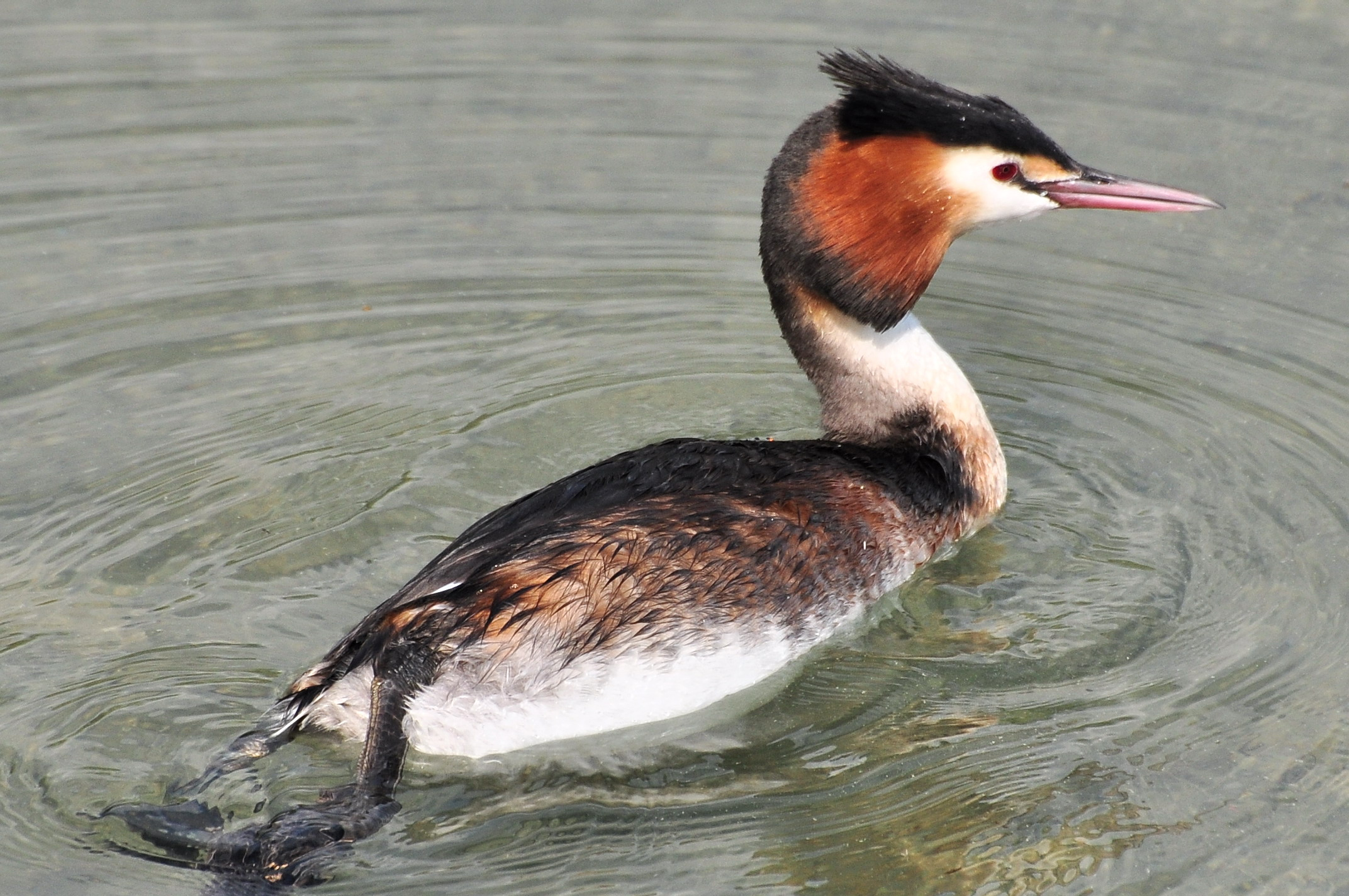 Podiceps cristatus at Holzbrücke (wooden bridge) between Rapperswil (Switzerland) and Hurden, crossing Obersee (upper Lake Zurich).